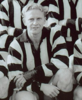 Photo of Ron Carruthers in 1945